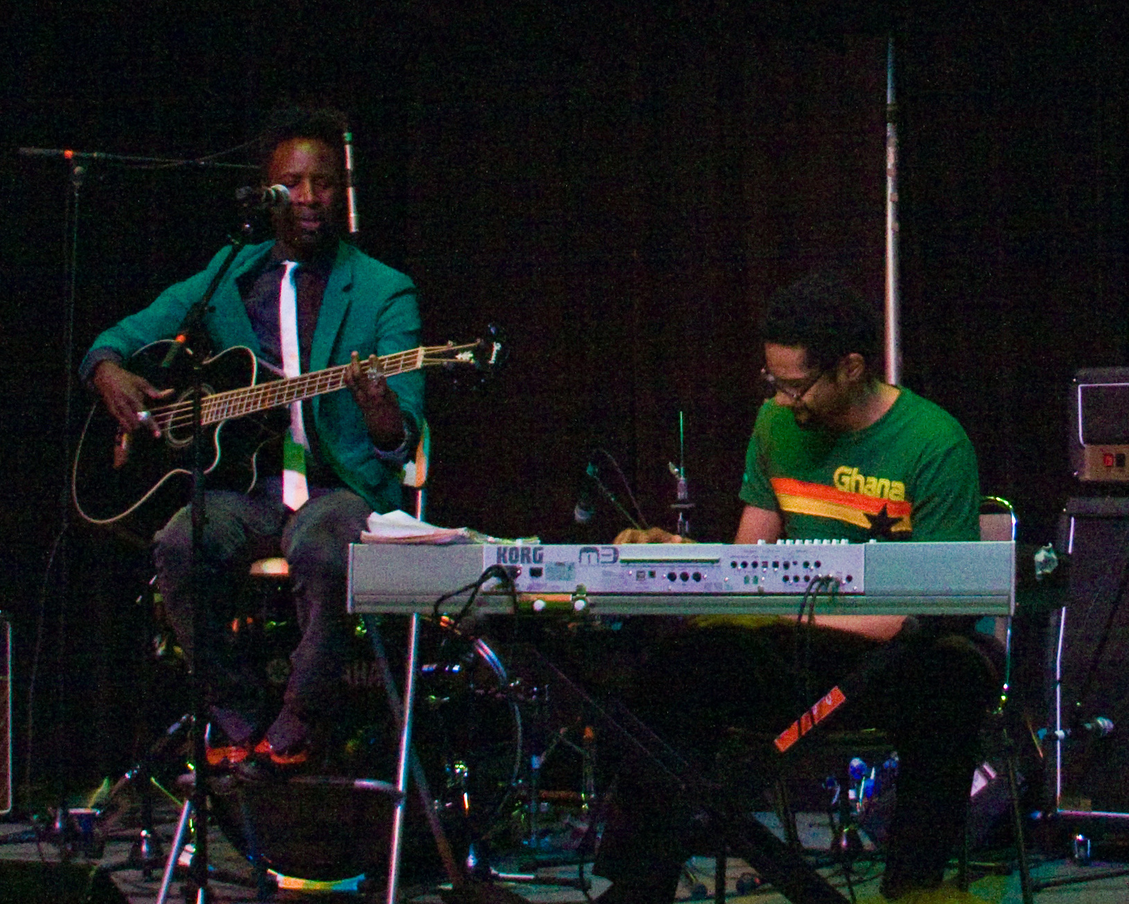 Saul Williams playing bass at a live show at SXSW 2008